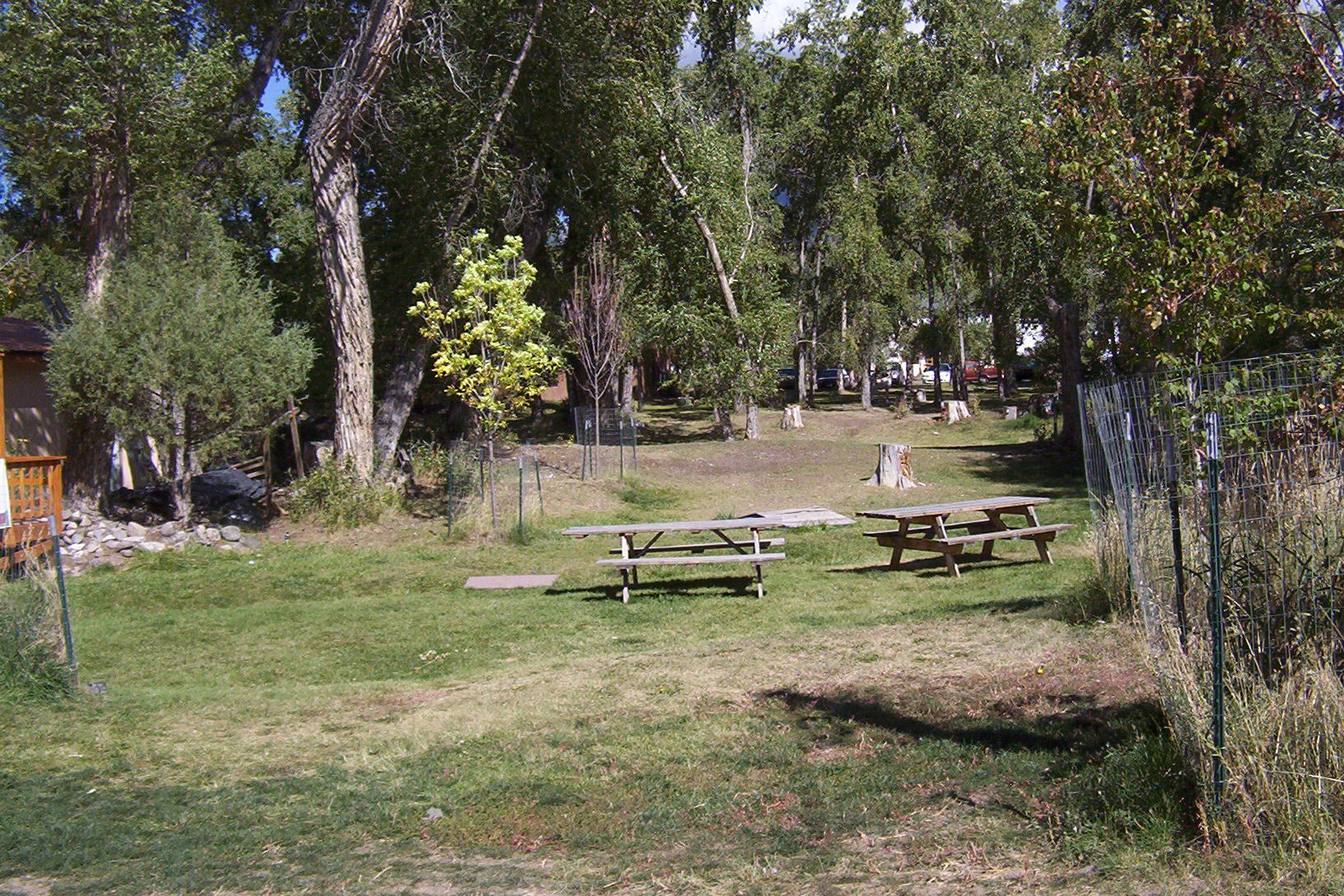 Little Pearl Park, a pocket park in Crestone, Colorado